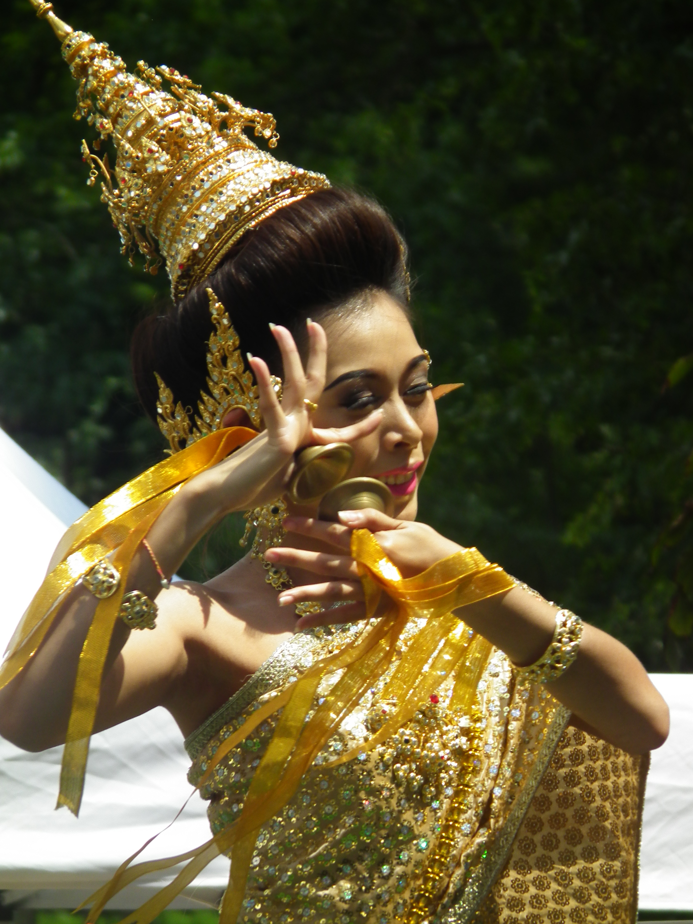 Wat Thai Village DC 2013